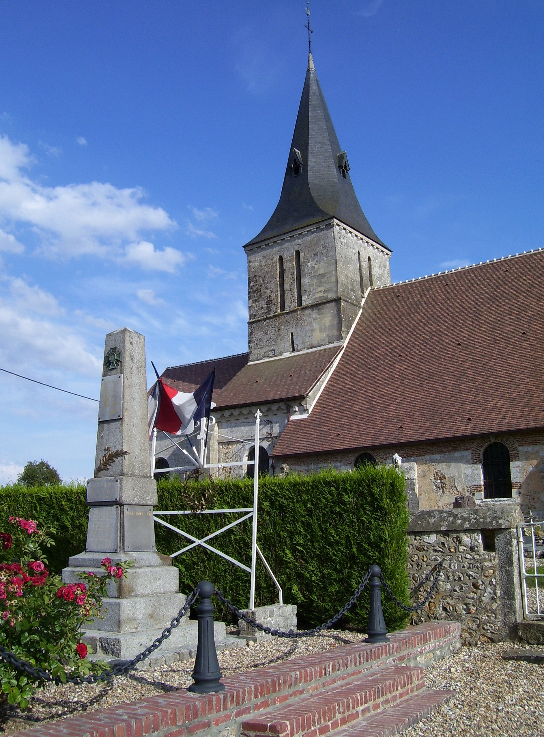 Church Saint-Aubin and war memorial in Boisney, departement Eure, Normandie, France